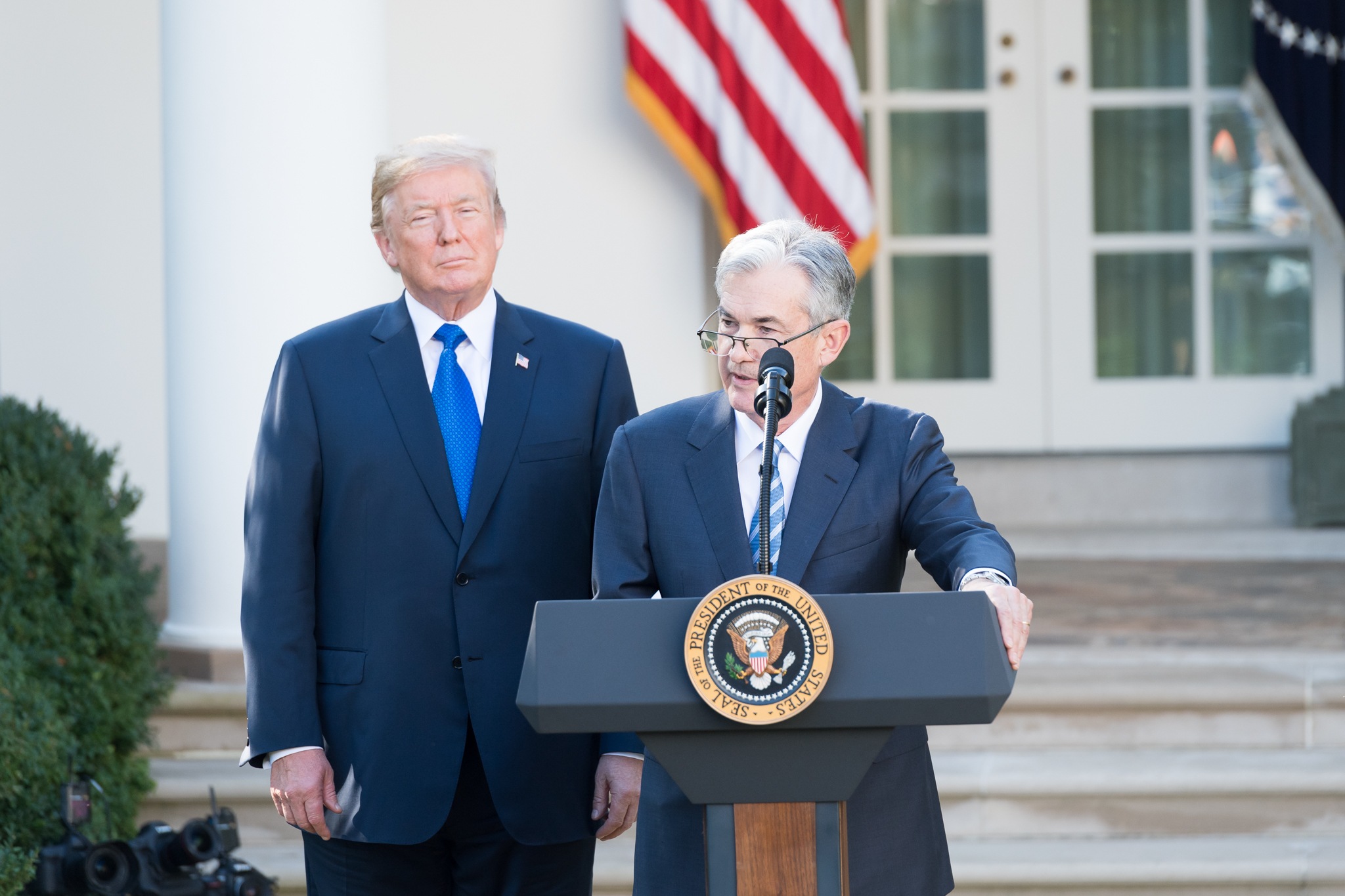 President Donald J. Trump announced the nomination of Jerome Powell to be Chairman of the Board of Governors of the Federal Reserve System / November 2, 2017 (Official White House Photo by Andrea Hanks)